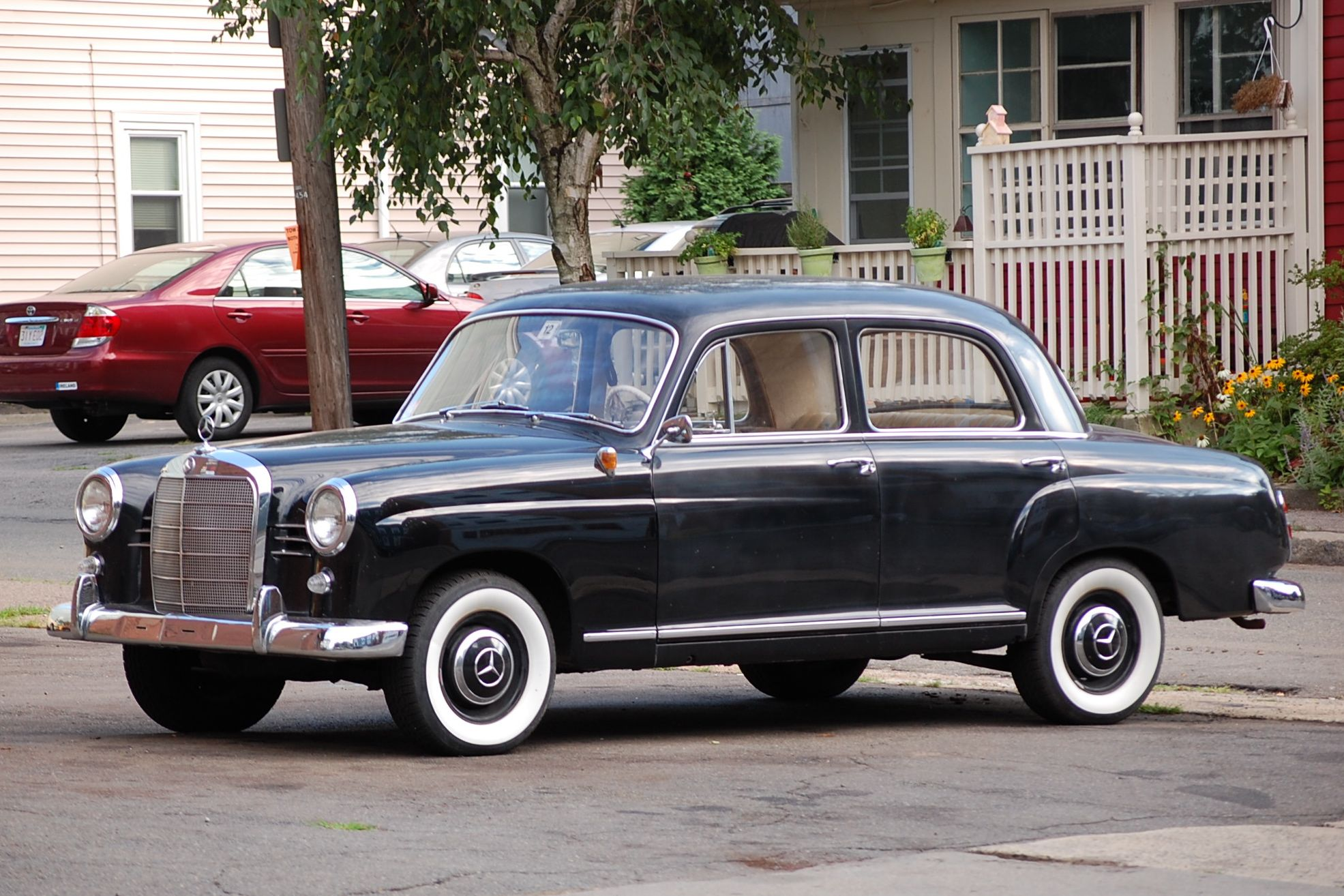 Mercedes-Benz 190D, or W121. Dates to the 1958-1959 model year.